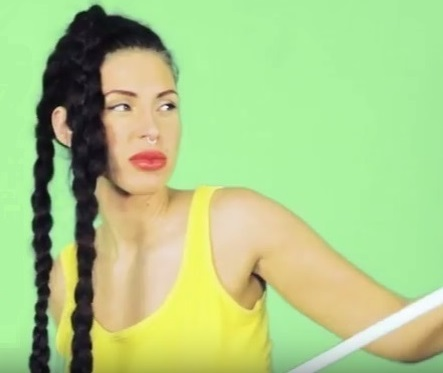 YAIYA for The Freedom Will Arrive Project